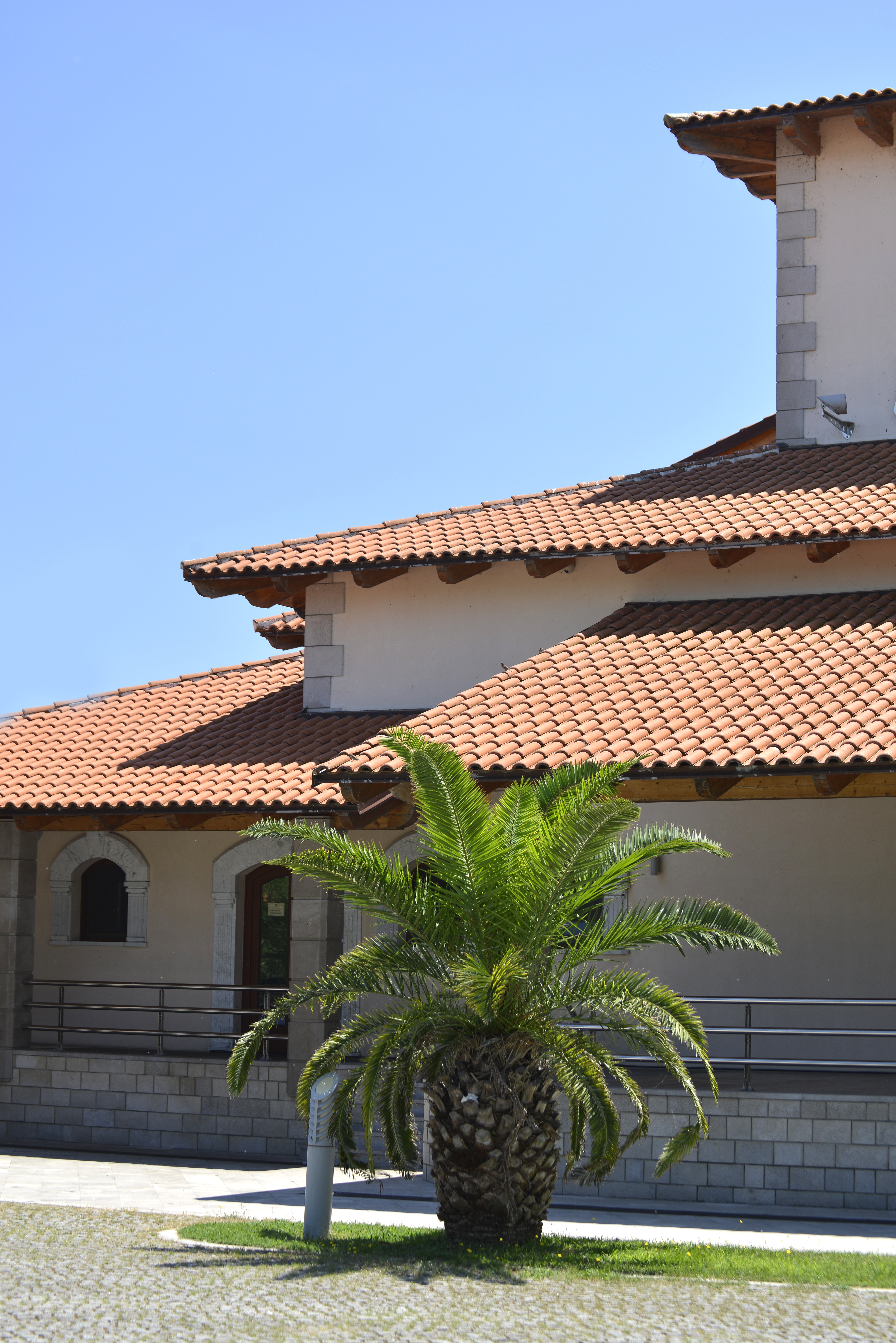 Plavnica Eco Resort, Skadar Lake National Park, Montenegro